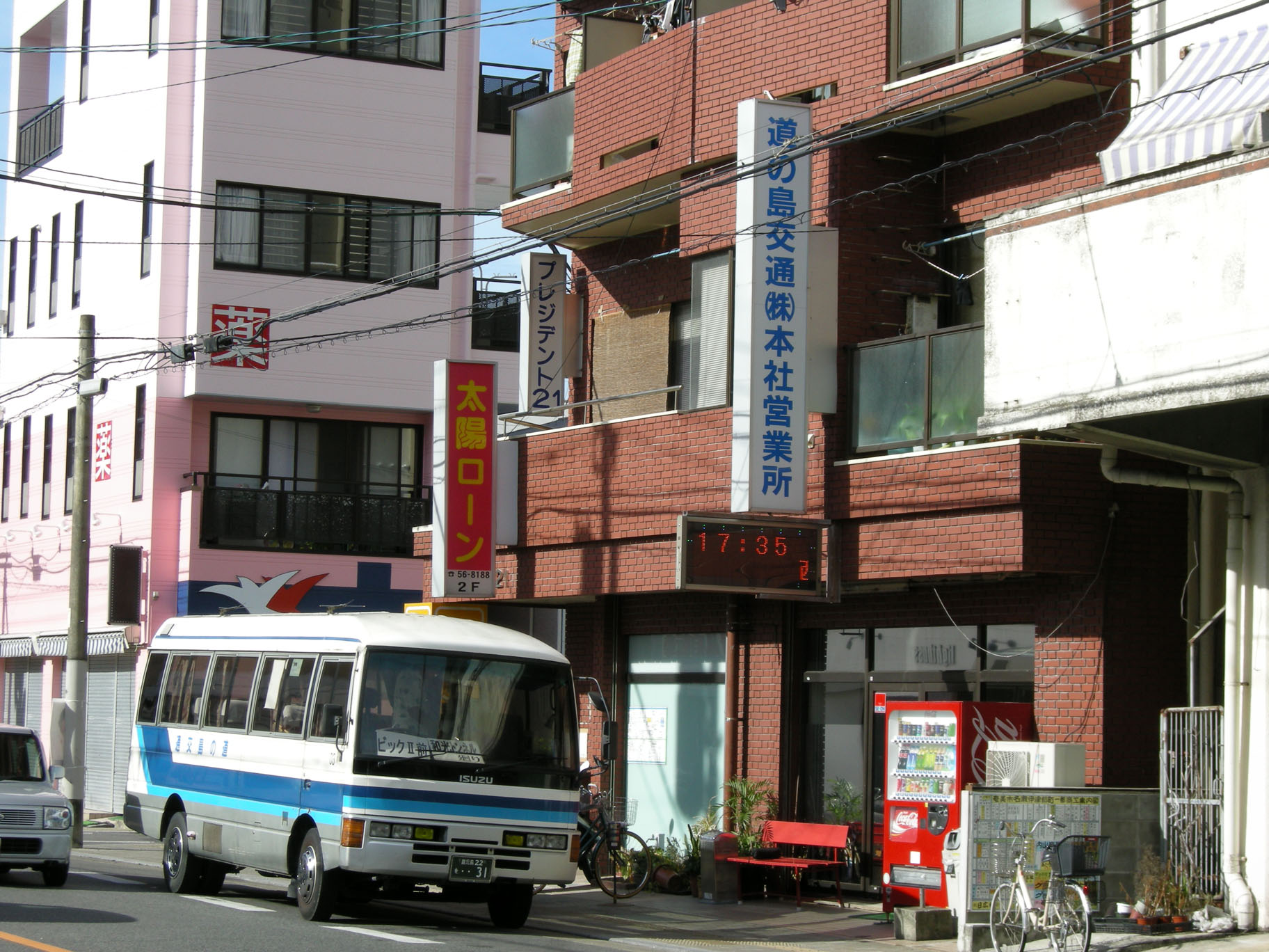 Michinoshima Kotsu, Amami, Kagoshima, Japan